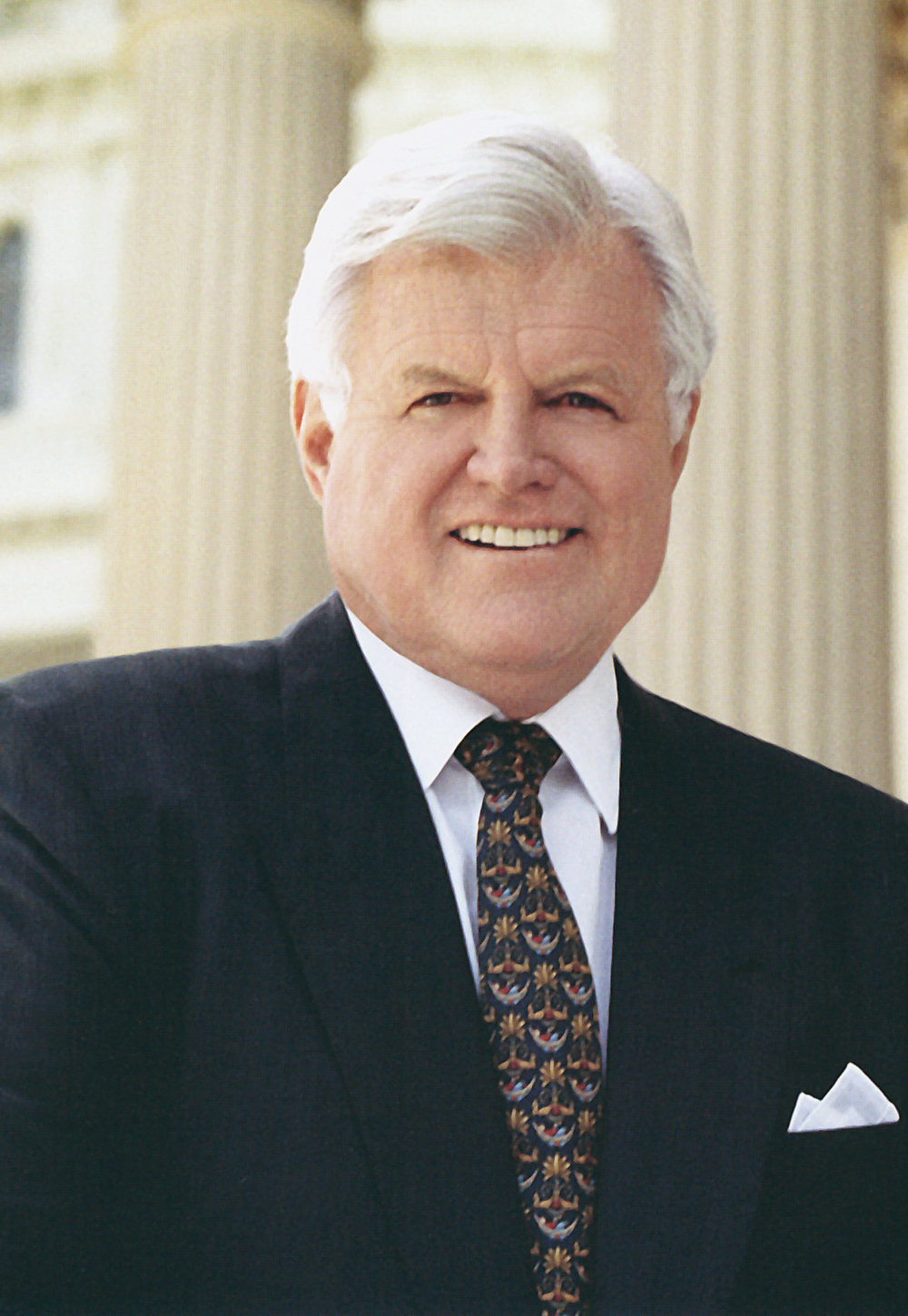 Cropped version of below photo